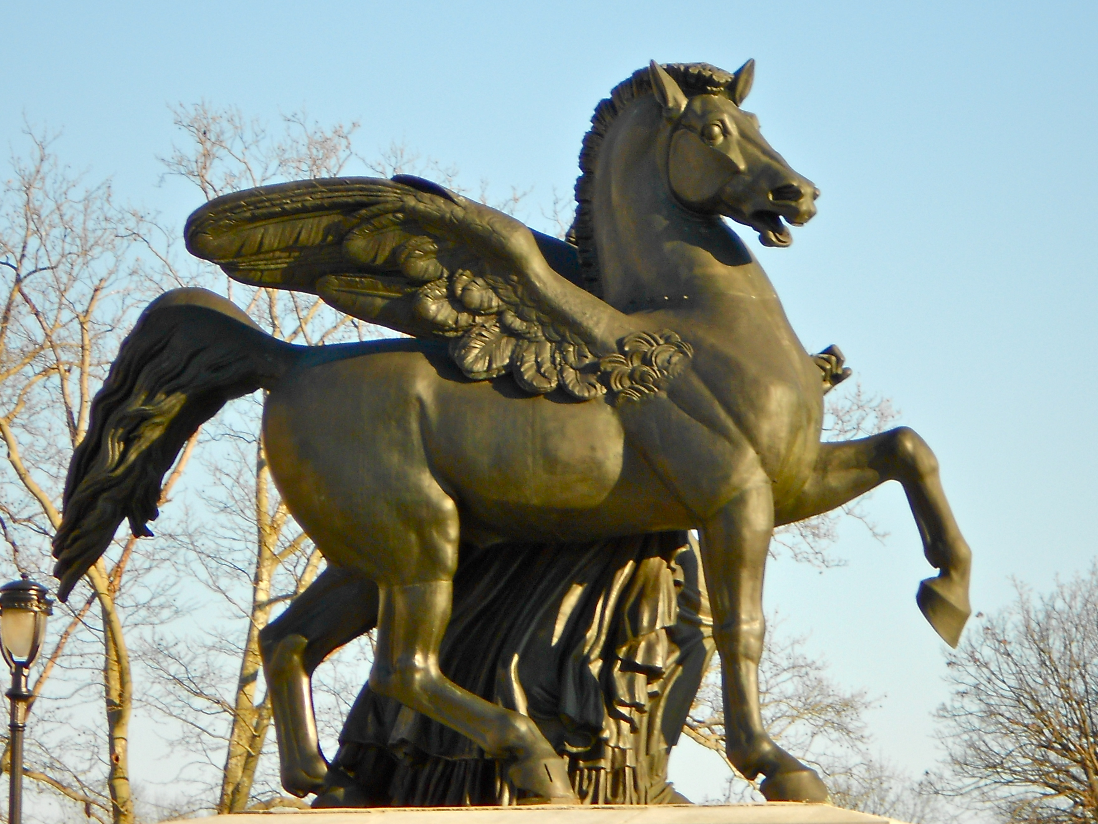 Winged horse statue, south of main entrance of Memorial Hall, Philadelphia; sculptor Vincent Pilz (1816-1896)